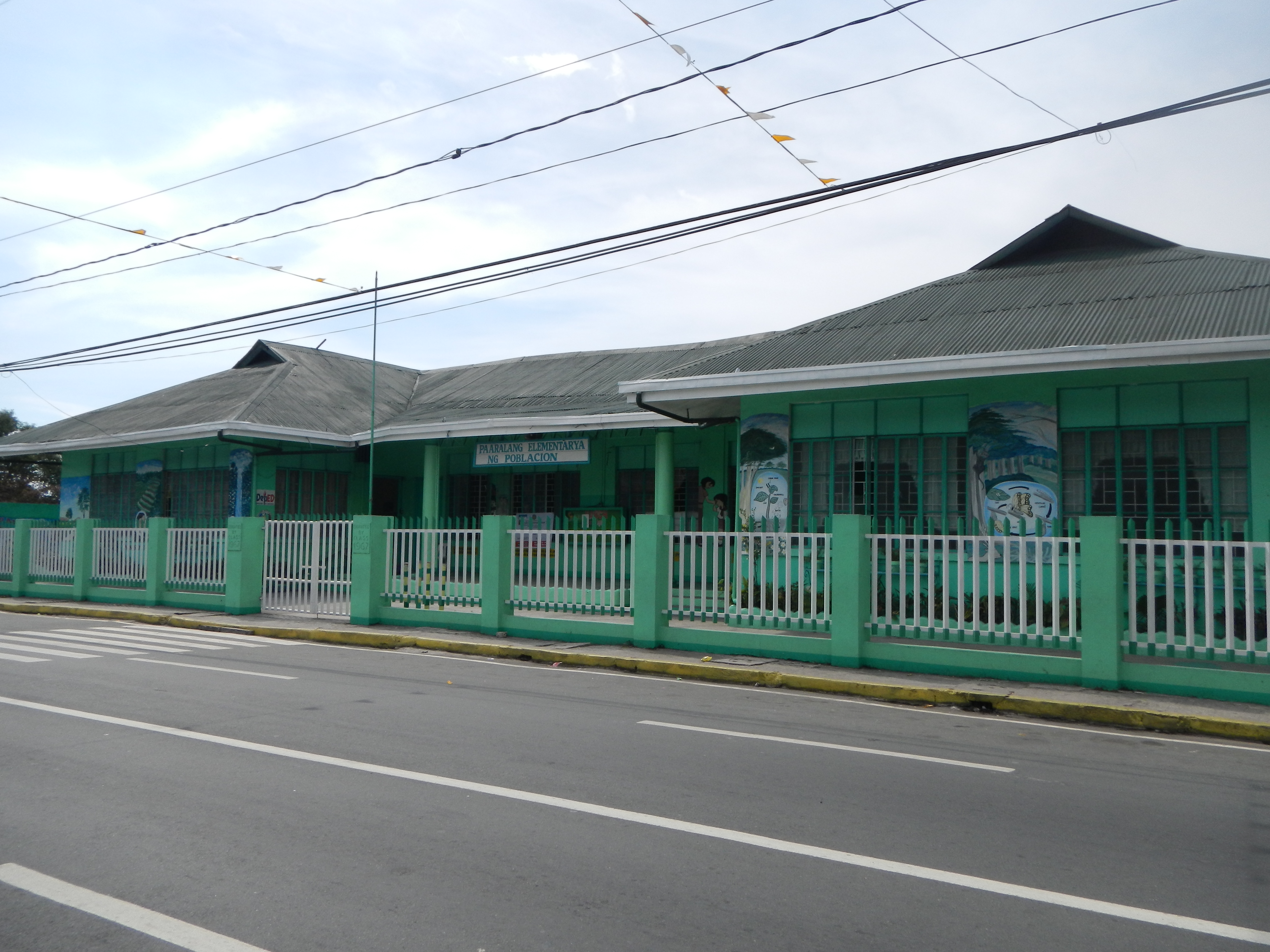 Bacoor[1] The City of Bacoor (Filipino: Lungsod ng Bacoor) is a first class urban component city in the province of Cavite[2] Philippines.Website Coordinates: 14°24'47"N 120°58'3"E [3] This place is situated in Cavite, Region 4, Philippines, its geographical coordinates are 14° 27' 28" North, 120° 56' 33" East and its original name (with diacritics) is Bacoor.[4] It is a lone congressional district of Cavite. A sub-urban area, the city is located approximately 15 kilometers southwest of Manila, on the southeastern shore of Manila Bay, at the northwest portion of the province with an area of 52.4 square kilometers. According to the 2010 census of population conducted by the National Statistics Office, Bacoor has a population of 520,216 making it the second most populous community in the province after Dasmariñas. Brgy. Sineguelasan, Bacoor, Cavite [5] Coordinates: 14°27'34"N 120°55'46"E[6] Day Care Center and Library with playground at Brgy. Sineguelasan [7] St . Michael's Institute SM City Bacoor [8] Coordinates: 14°27'33"N 120°55'55"E - Brgy. Sineguelasan Hall[9] Sineguelasan, Bacoor, Cavite, Calabarzon (Region IV-A) is located in Philippines. Its zip code is 4102.[10]Oyster Farming in Bacoor [N.B. From Bulacan at 11:00 a.m. I took photos of Bacoor, Cavite at 1:54 p.m., the Town Hall, Plaza, Halls of Justice, St. Michael the Archangel heritage Church and the Oysters and Mussels of Bacoor in Brgy. Sineguelasan - finishing at 4:52 p.m.]